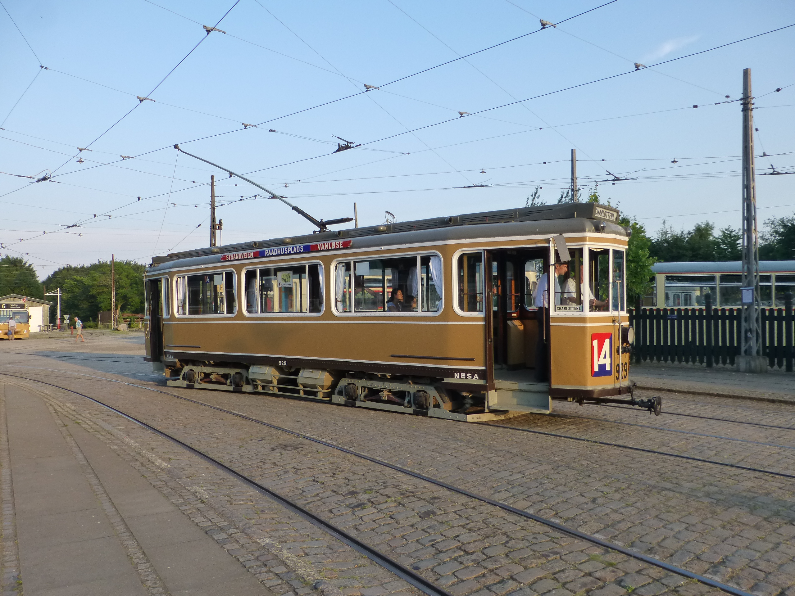 Old tram of Copenhagen, NESA 929 from 1934, at Sporvejsmuseet Skjoldenæsholm in Denmark.